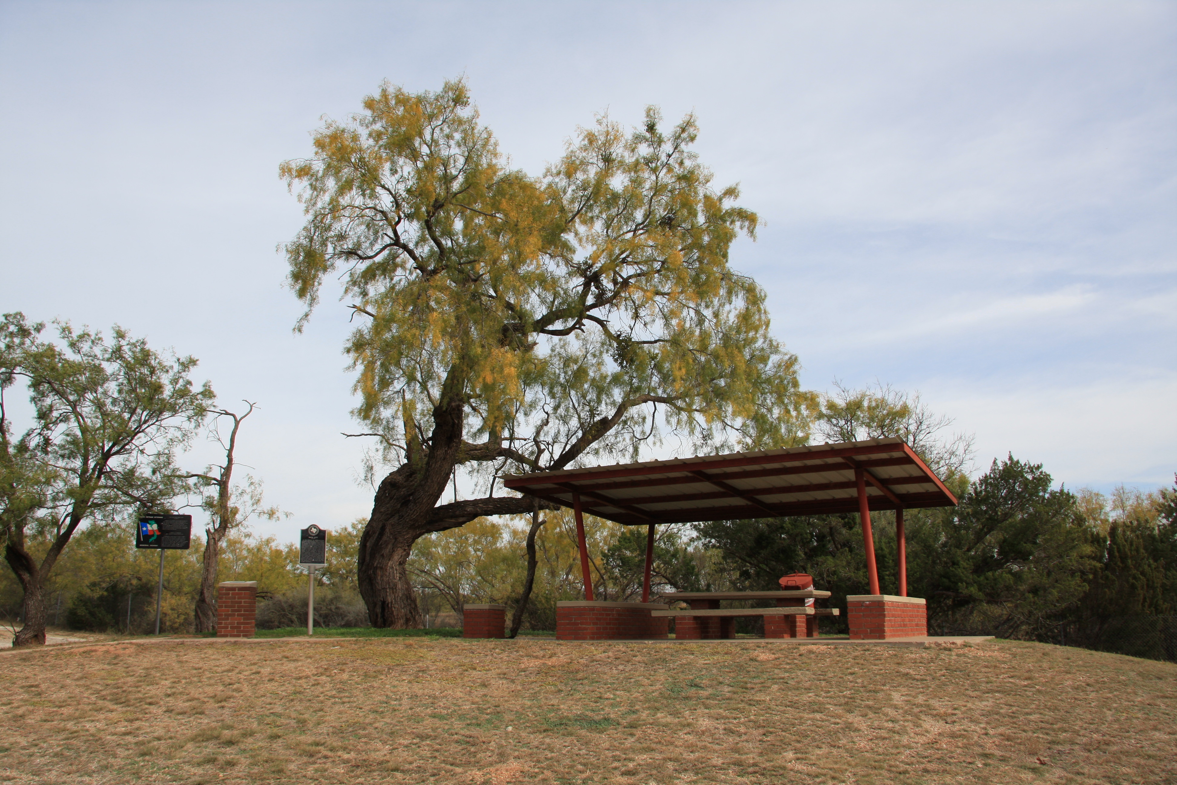 Historical marker and rest stop along U.S. Route 83 in Texas at the site of the former Rath City, Texas, now a ghost town.